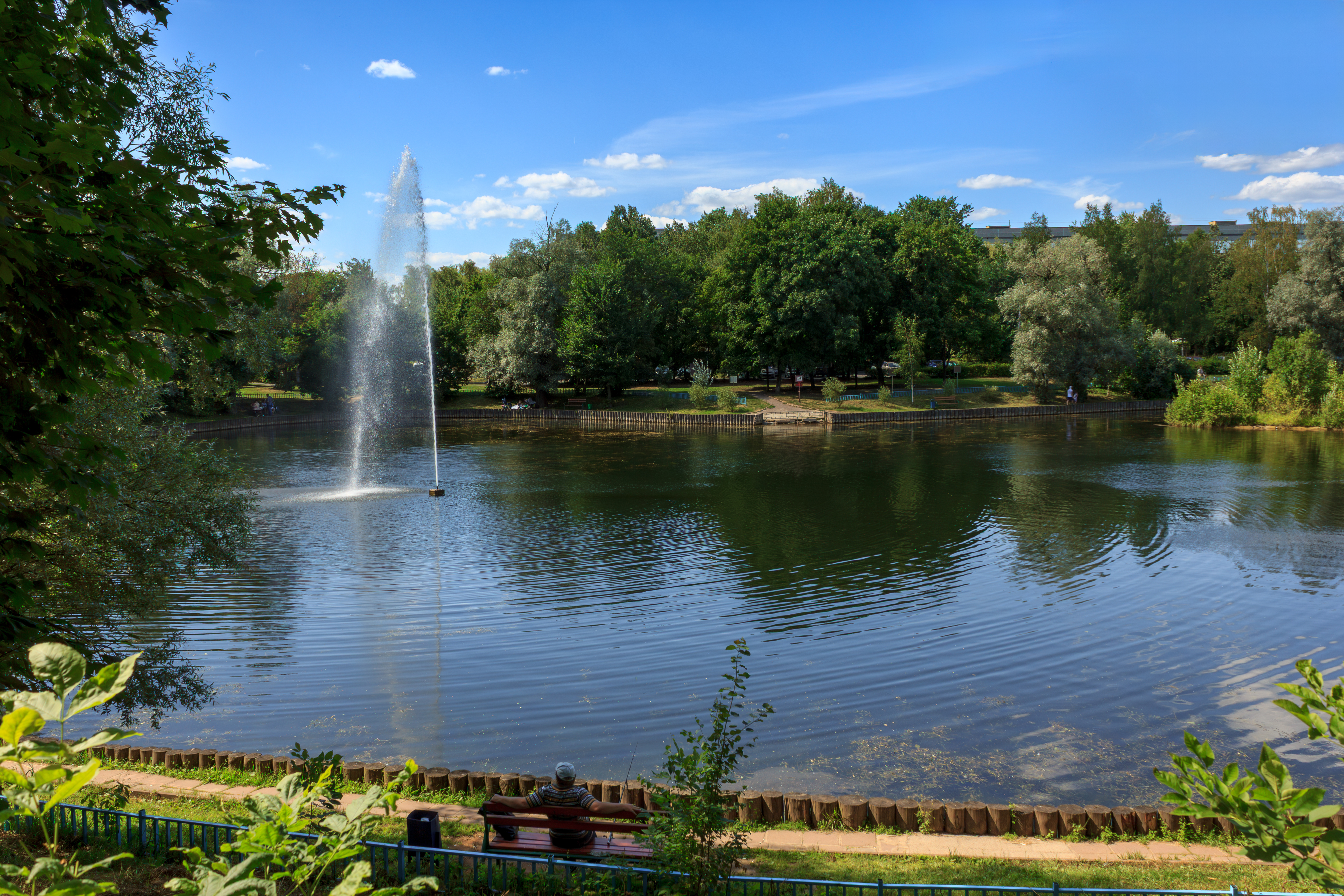 Pond Bykovo boloto in Zelenograd, Russia